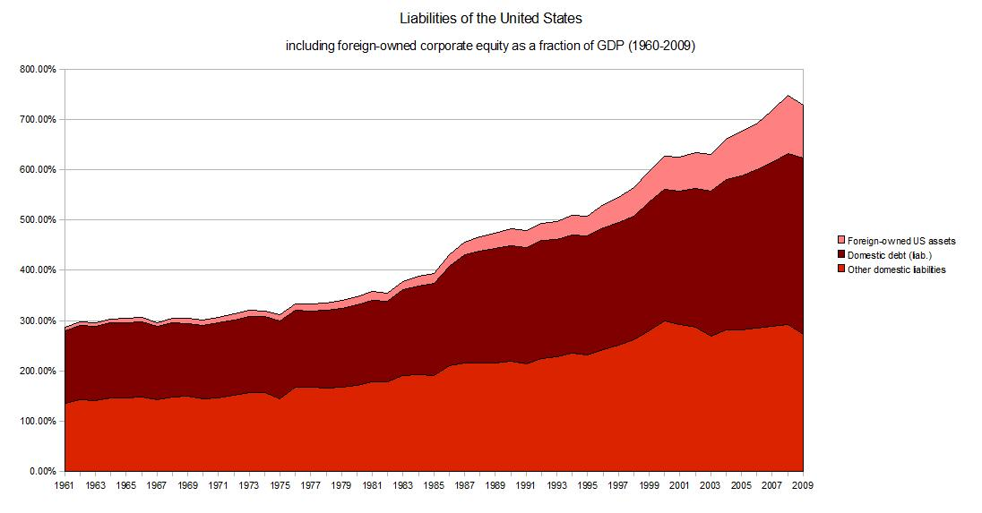 Liabilities of the United States as a fraction of GDP (1960-2009) from [1] Foreign-owned US assets is assets owned by the rest of the world. Domestic debt is total debt minus foreign-owed credit market debt Other liabilities is total liabilities minus domestic debt minus foreign liabilities owed to the US.